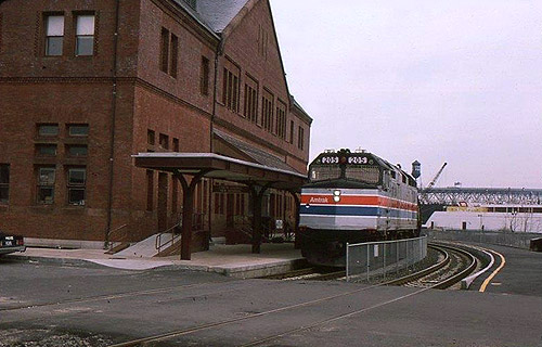 An Amtrak train at New London Union Station in April 1983